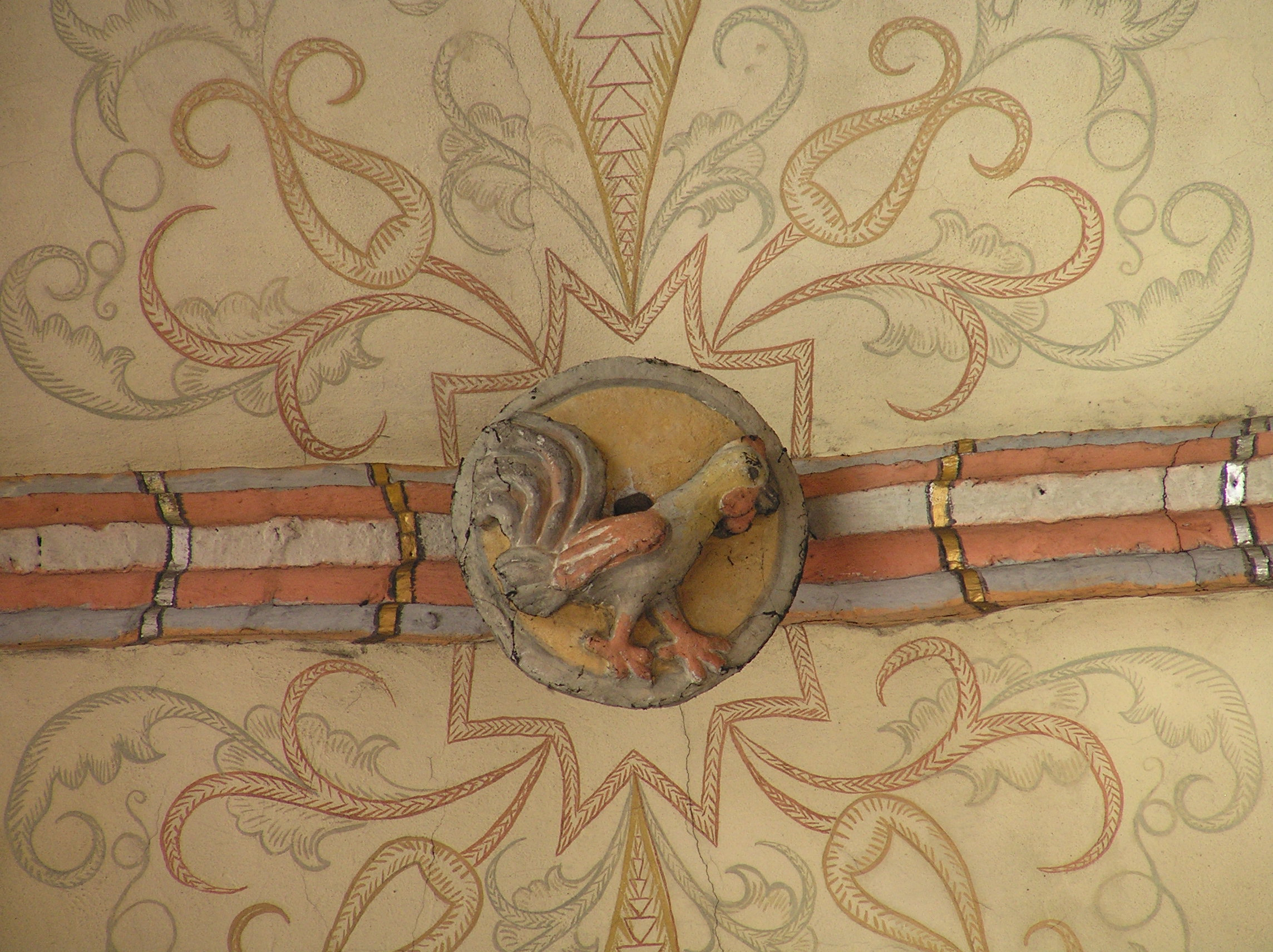 Chełmno, St. Mary church, keystone in the northern aisle - a cock, ca. 1330-40